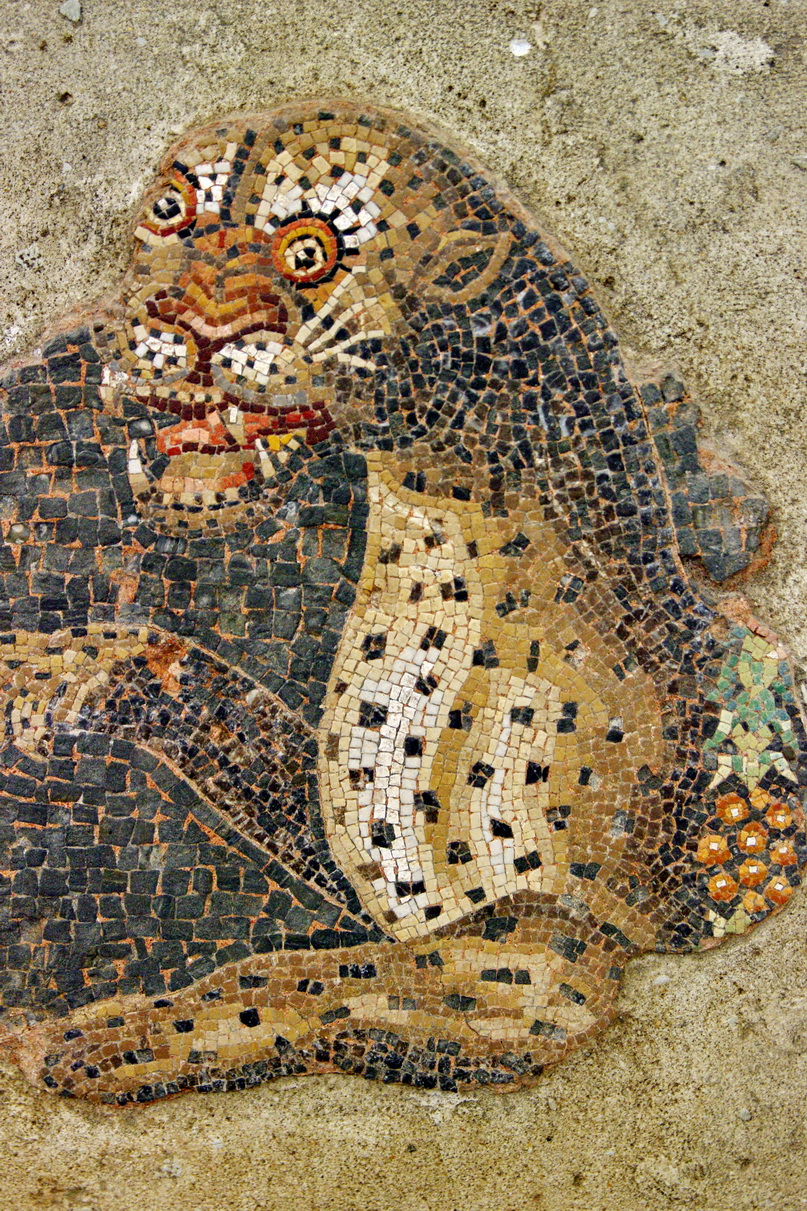 Mosaic of the house with the masks, Museum Delos